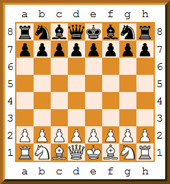 Un-animated version of